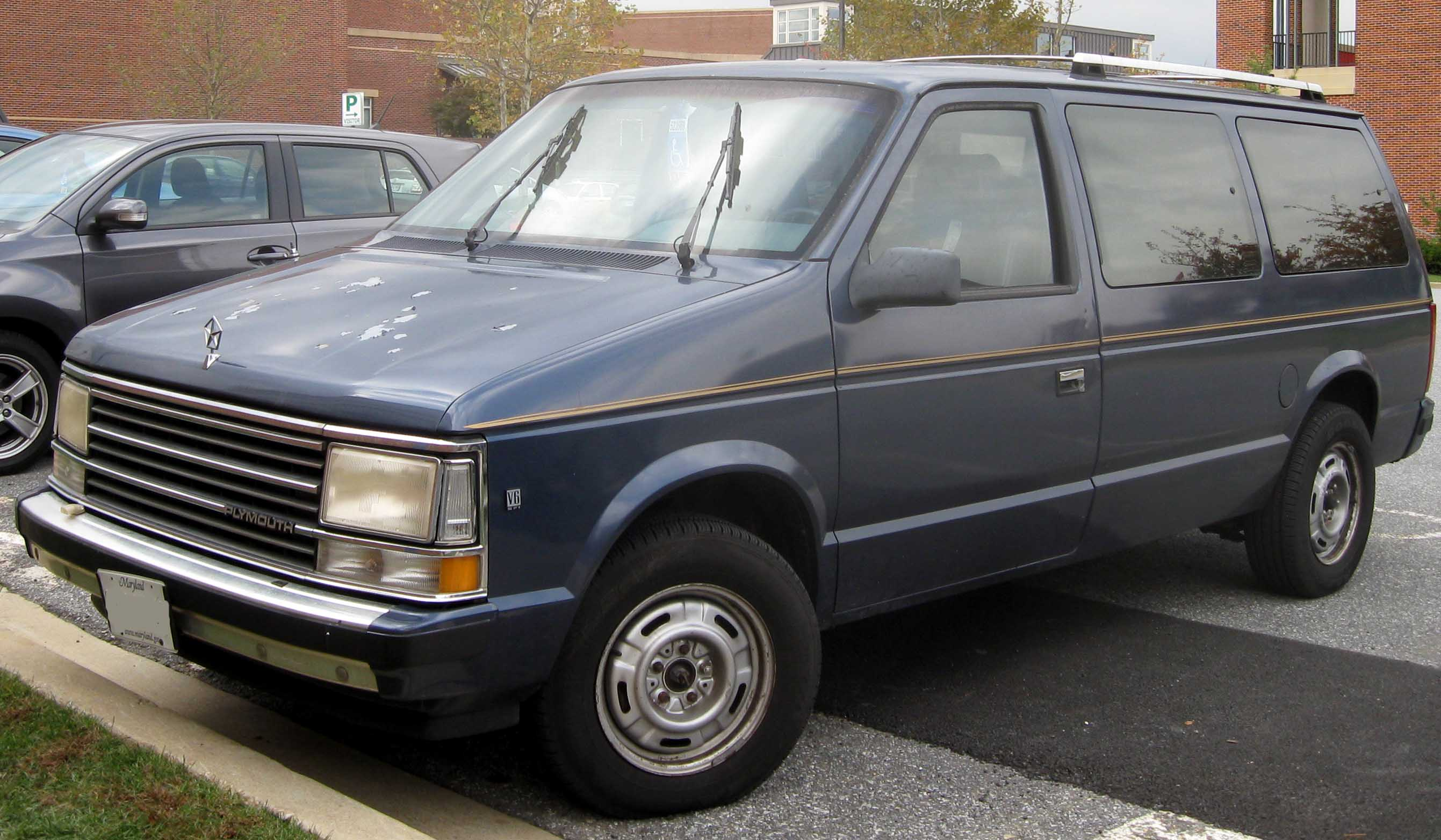 1987-1990 Plymouth Grand Voyager photographed in College Park, Maryland, USA.